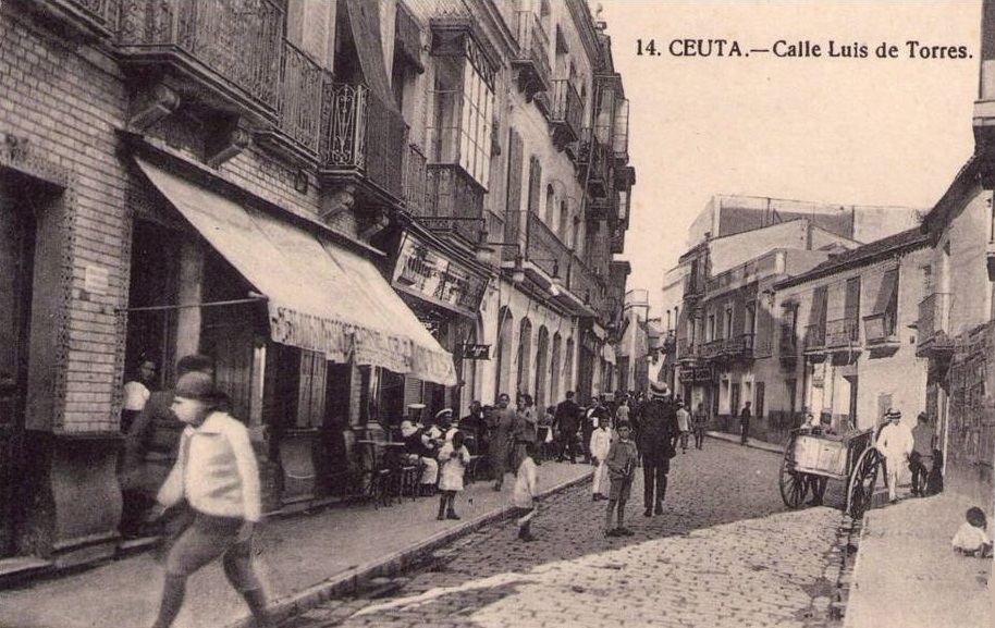 A street of Ceuta c. 1905-1910. Contemporary postcard